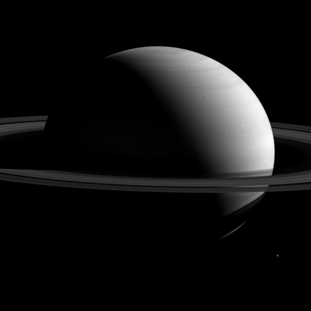 PIA18350: Saturn the Mighty and moon Tethys (lower right corner of image). It is easy to forget just how large Saturn is, at around 10 times the diameter of Earth. And with a diameter of about 72,400 miles (116,500 kilometers), the planet simply dwarfs its retinue of moons. One of those satellites, Tethys (660 miles or 1,062 kilometers across), is seen here at lower right. This view looks toward the sunlit side of the rings from about 8 degrees above the ring plane. The image was taken with the Cassini spacecraft wide-angle camera on March 7, 2015 using a spectral filter that preferentially admits wavelengths of near-infrared light centered at 752 nanometers. Tethys has been brightened by a factor of 2 to increase its visibility. The view was acquired at a distance of approximately 1.6 million miles (2.6 million kilometers) from Saturn. Image scale is 10 miles (16 kilometers) per pixel. Tethys is slightly closer at 1.5 million miles (2.4 million kilometers) away, for an image scale of 9 miles (14 kilometers) per pixel. The Cassini mission is a cooperative project of NASA, ESA (the European Space Agency) and the Italian Space Agency. The Jet Propulsion Laboratory, a division of the California Institute of Technology in Pasadena, manages the mission for NASA's Science Mission Directorate, Washington. The Cassini orbiter and its two onboard cameras were designed, developed and assembled at JPL. The imaging operations center is based at the Space Science Institute in Boulder, Colorado. For more information about the Cassini-Huygens mission visit and The Cassini imaging team homepage is at